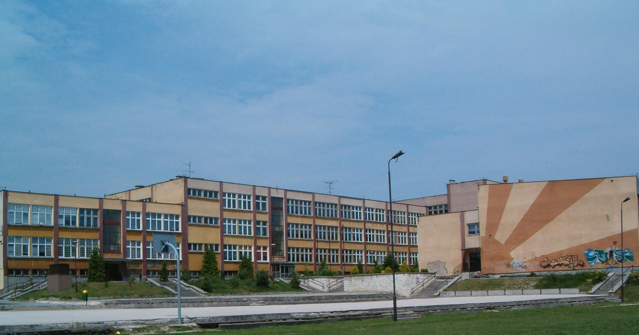 Elementary School number 2 in Pińczów